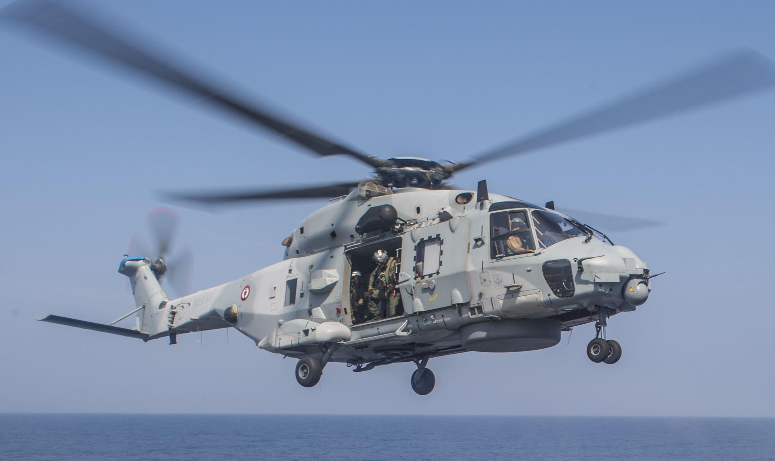 A French Marine Nationale NHIndustries NH90 NFH helicopter assigned to the frigate Provence (D652) lands on the flight deck of the U.S. Navy guided-missile cruiser USS Antietam (CG-54), not visible, during a bilateral exercise in the Bay of Bengal.